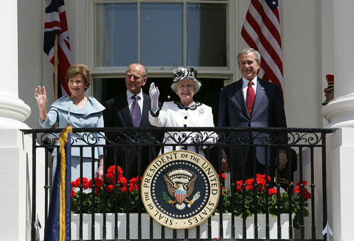 Description: President George W. Bush and Mrs. Laura Bush join Her Majesty Queen Elizabeth II and HRH Prince Philip, at the White House, waving to an audience of 7,000 guests during the Arrival Ceremony. Date: May 7, 2007 Uploaded by JGHowes